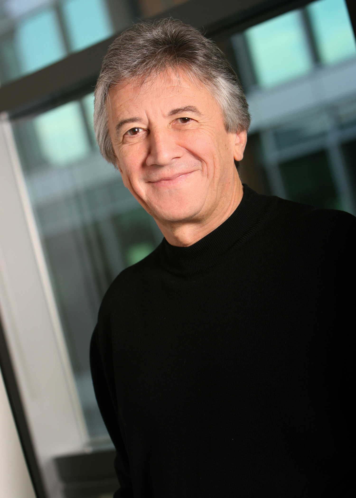 This is a professional photograph of Gian Fulgoni, he wishes for it to be included in his wikipedia page.